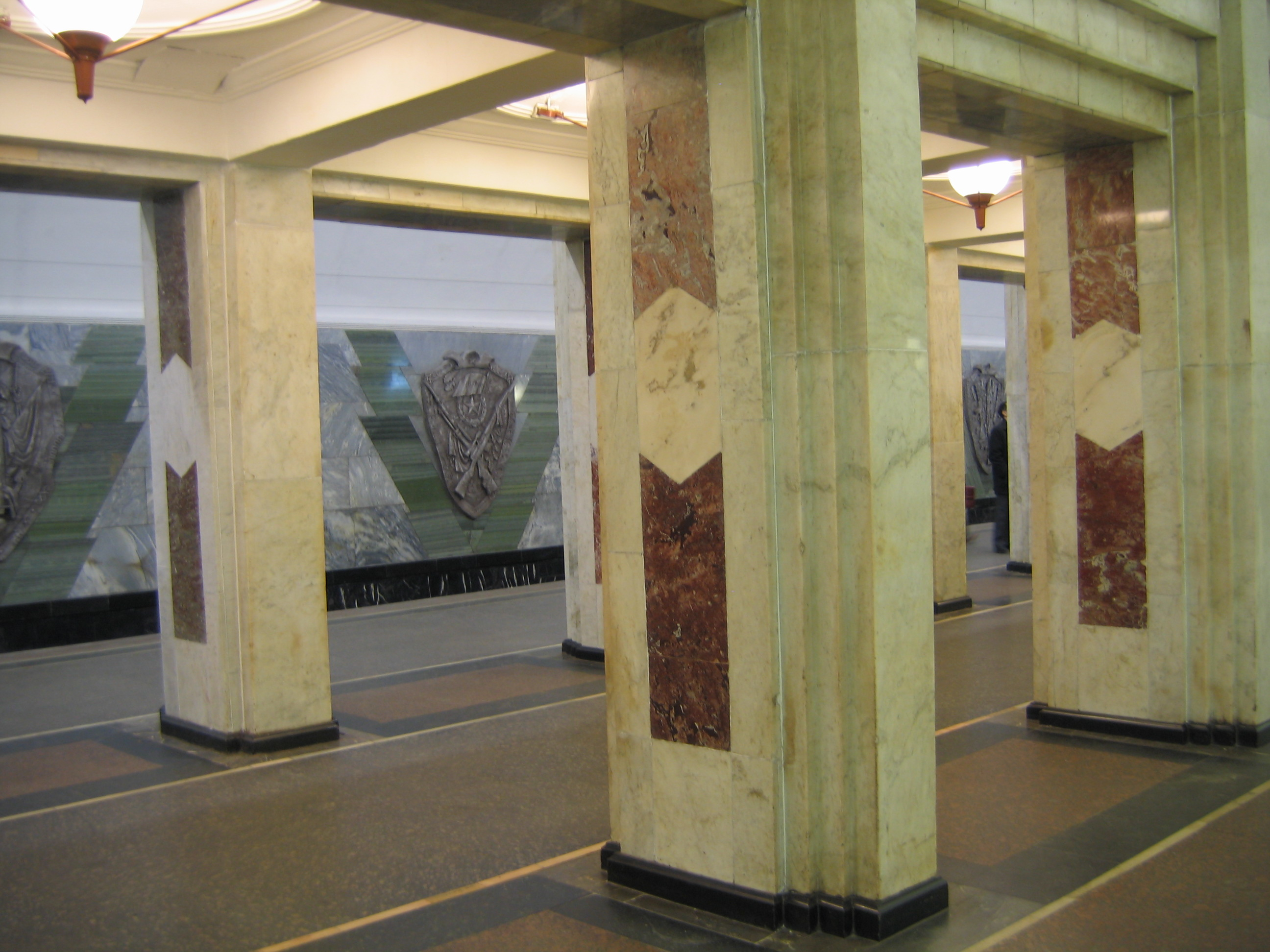 Semyonovskaya station of Moscow Metro